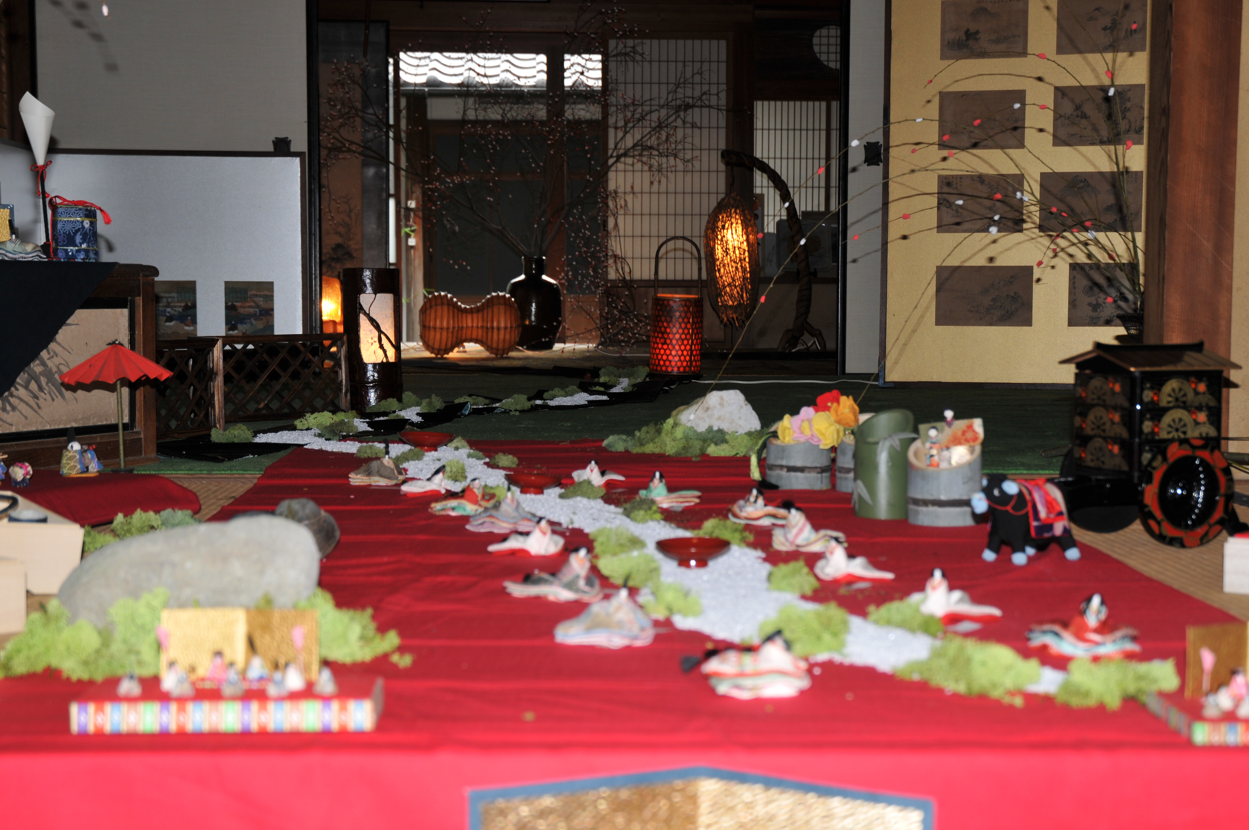 decoration of meandering stream